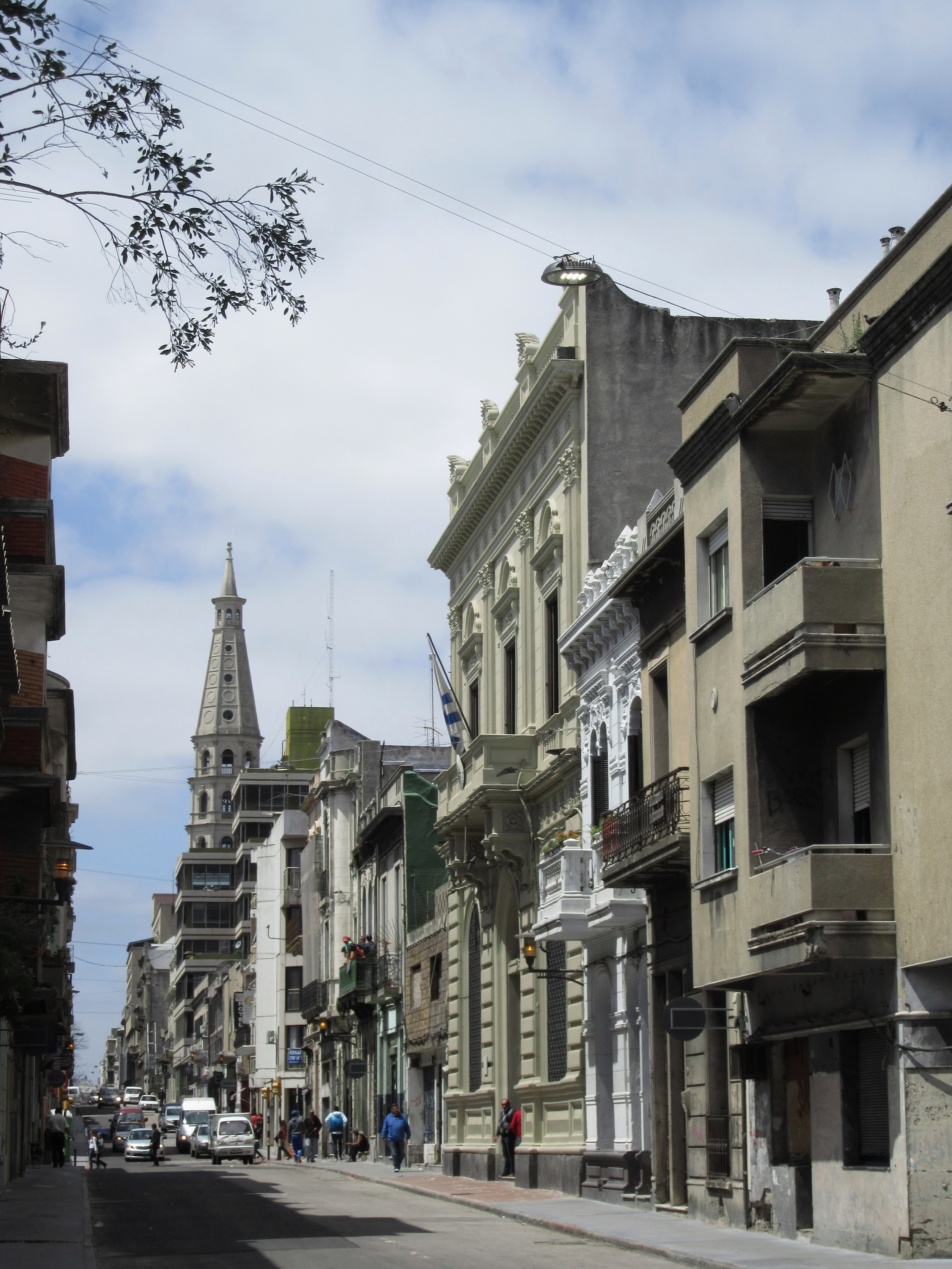 Montevideo